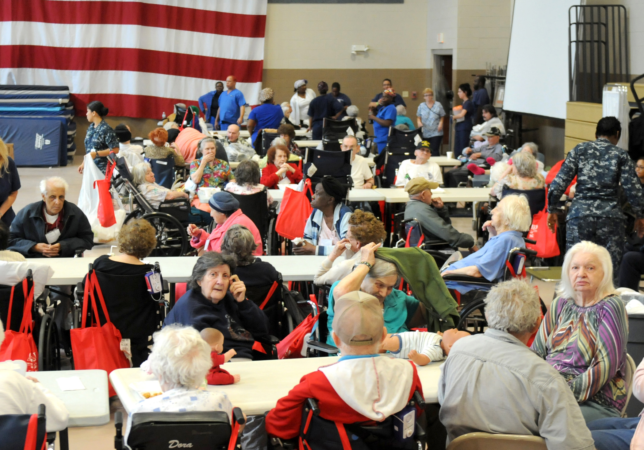 NEW ORLEANS (Aug. 30, 2011) Nursing home residents that were evacuated from Plaquemines Parish, La. during Hurricane Isaac, wait to return to their home while receiving shelter at Naval Air Station Joint Reserve Base New Orleans. After water began topping the levees near the nursing home, more than 100 residents were evacuated by the Louisiana Air National Guard to Naval Air Station Joint Reserve Base New Orleans, where they spent the night until the threat flooding passed. Corpsman from Naval Branch Clinic Belle Chasse assisted the nursing home’s staff with care and feeding of the residents. (U.S. Navy photo by Mass Communication Specialist 1st Class John P. Curtis/Released) 120830-N-SD120-002 Join the conversation navylive.dodlive.mil